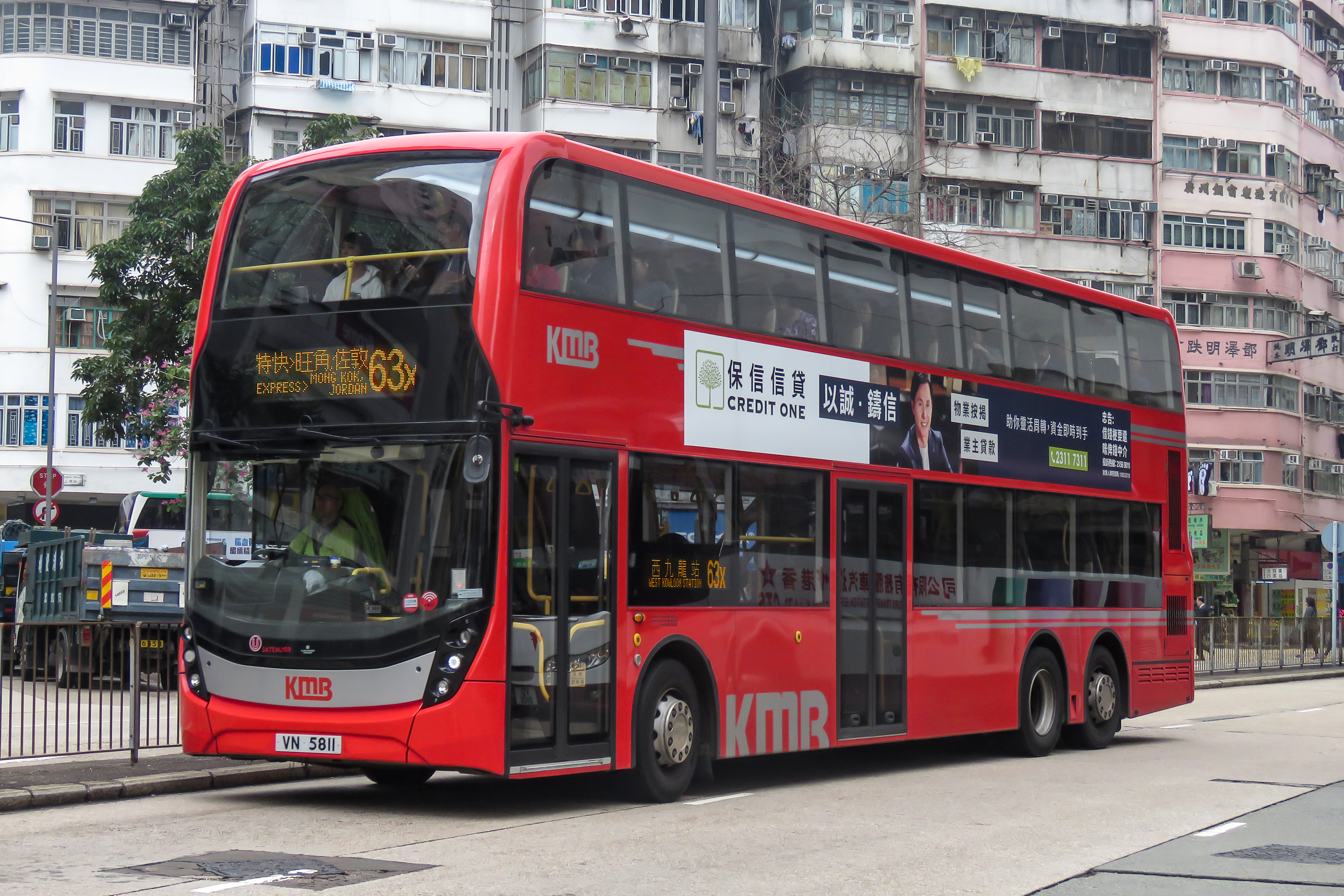 Near Metropark Hotel Mongkok and Trans-Island Chinalink terminus.